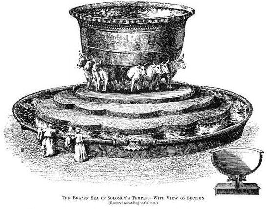 An artist's rendition of the Brazen Sea (or Molten Sea) of Solomon. It was published in the 1906 Jewish Encyclopedia which is now in the public domain. I cropped the image to remove the text